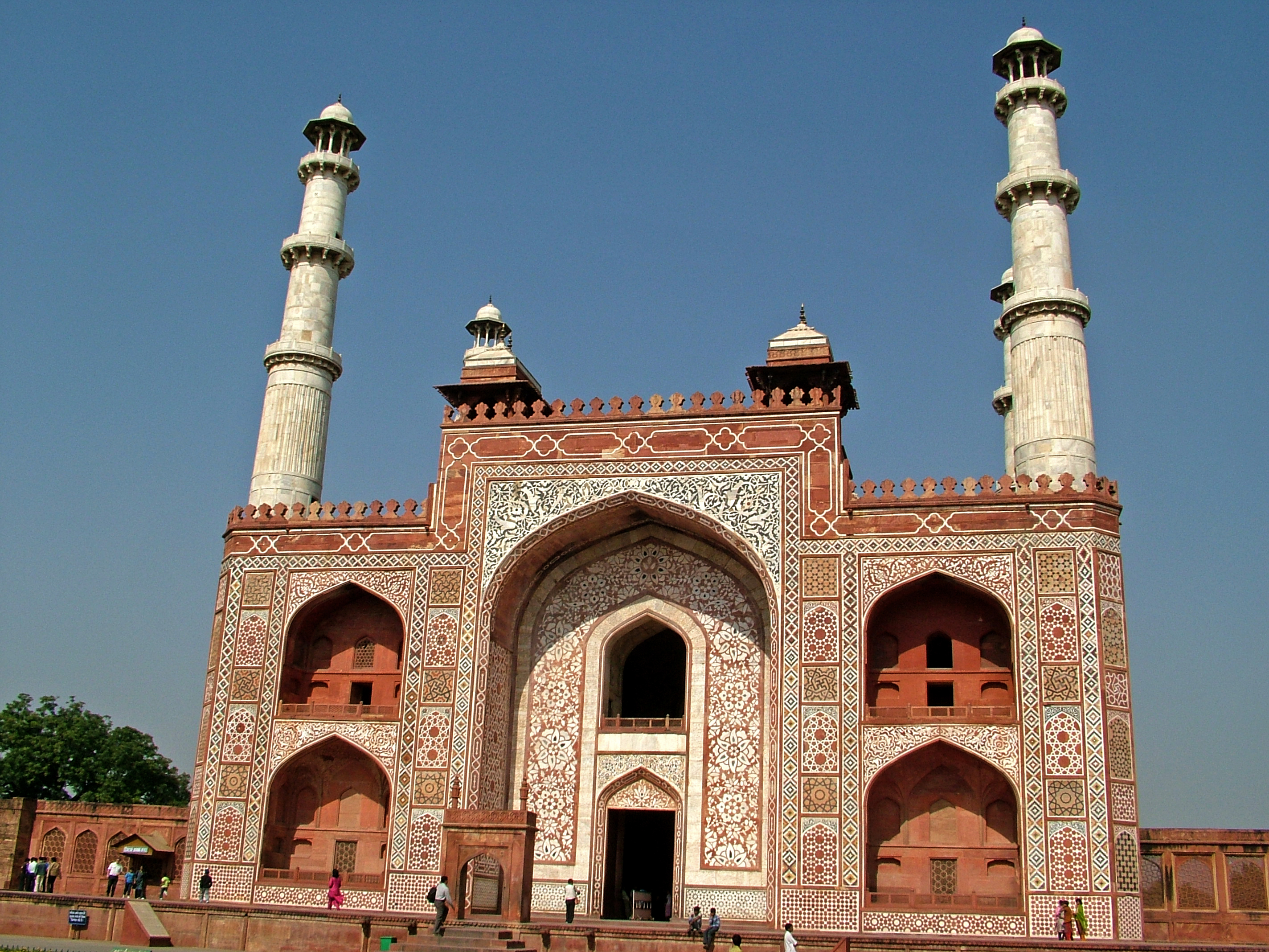 Main Gate to the Akbar's Tomb, Sikandra.